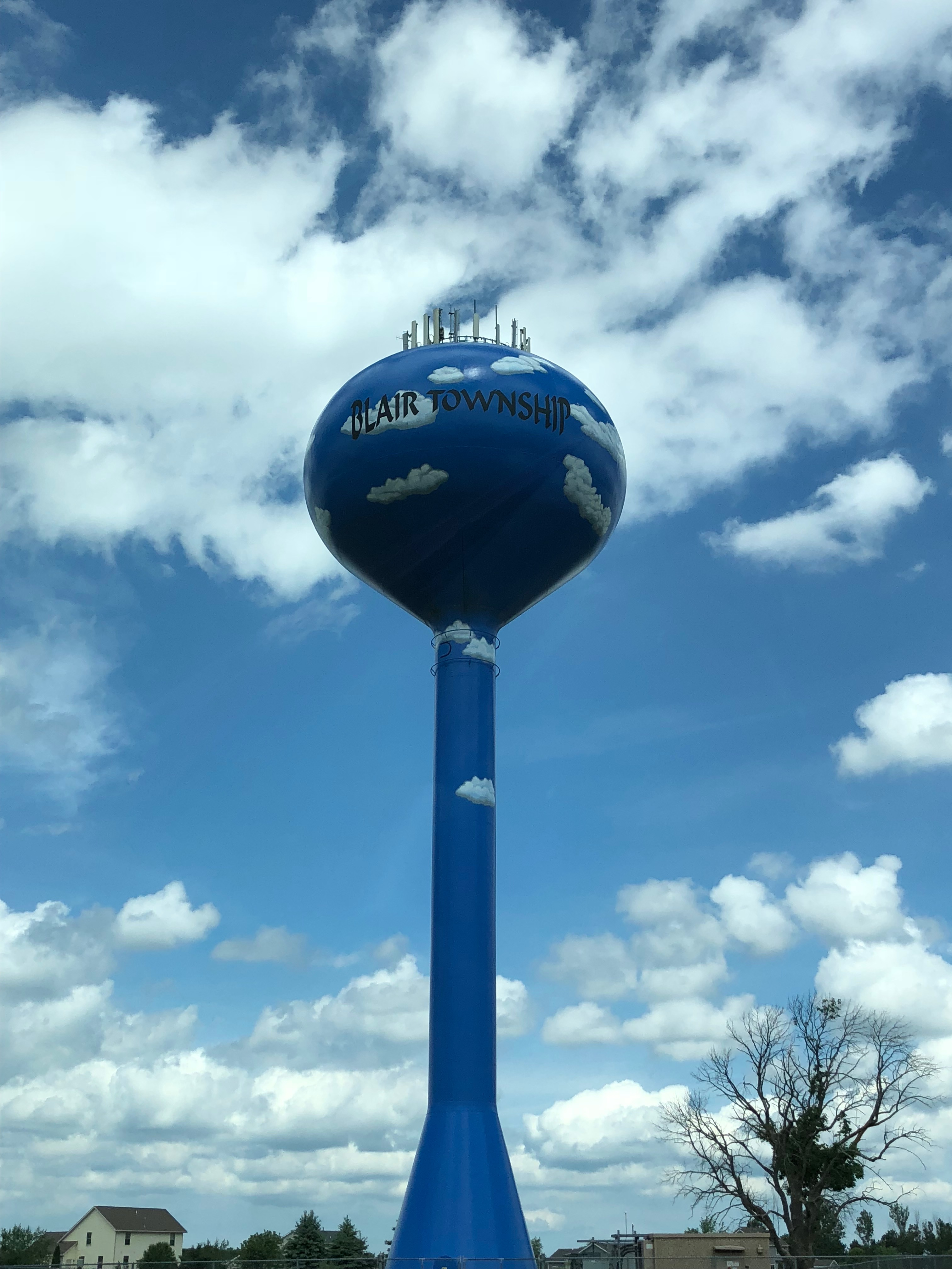 Blair Township Watertower on Village Park Drive near Chums Corner, MI on June 12, 2018